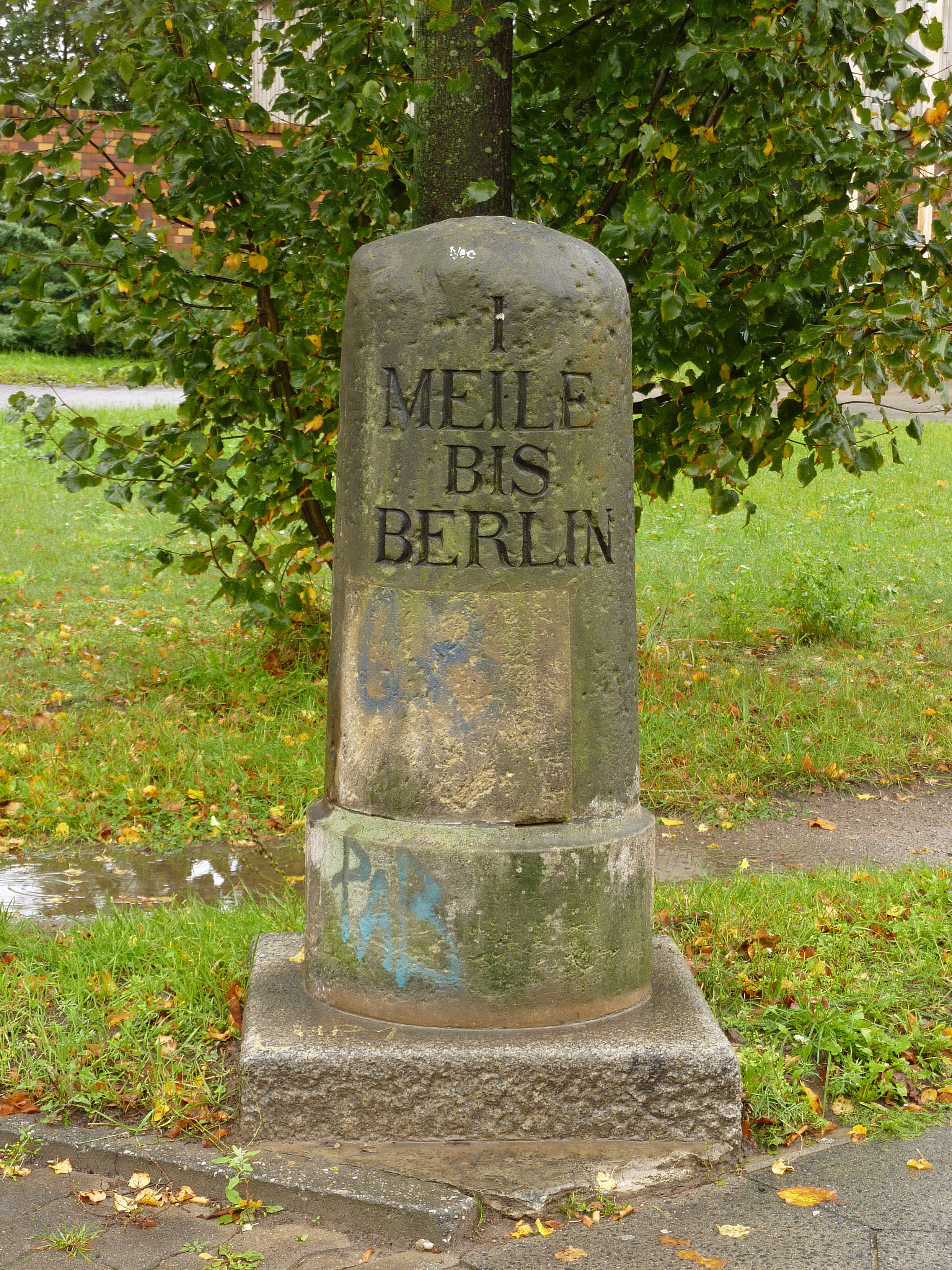 Inscription: I Meile bis Berlin, i.e. one Prussian mile to Berlin (equalling 4.6805 statute miles)